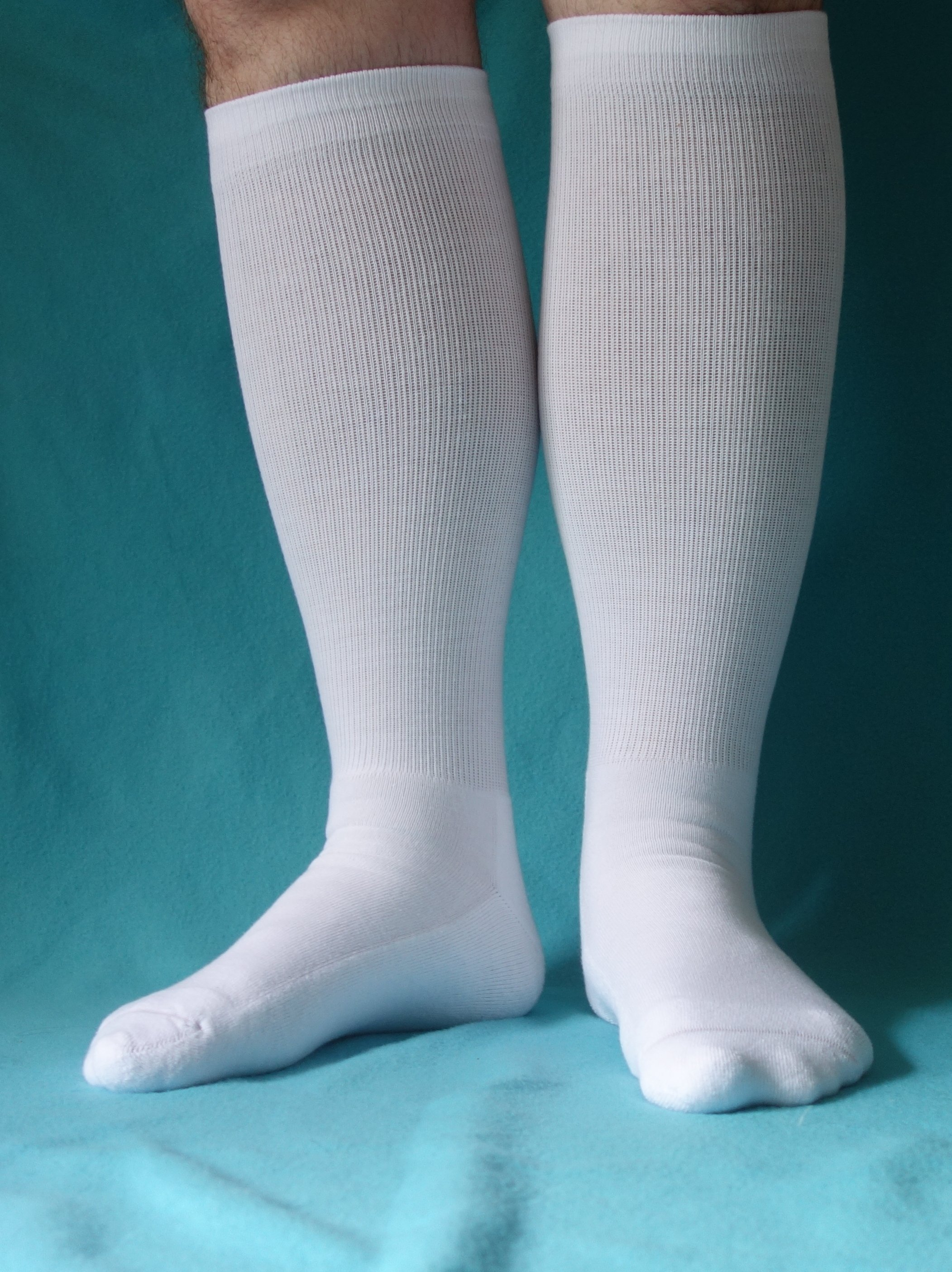 Socks for preventing diabetic foot ulcer